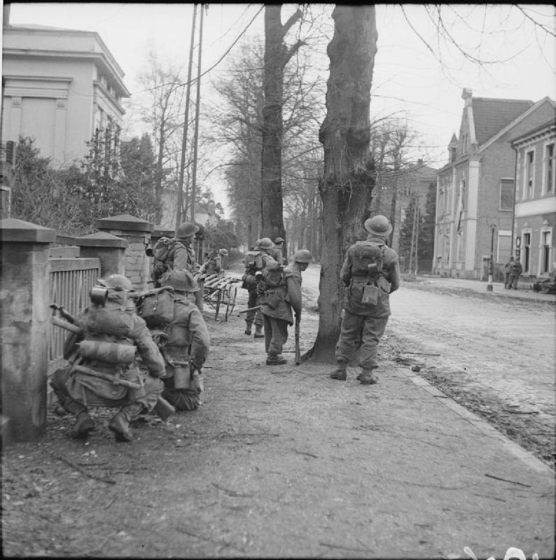 The British Army in North-west Europe 1944-45 Infantry of the 2nd Gordon Highlanders clearing snipers in Kleve, 11 February 1945.